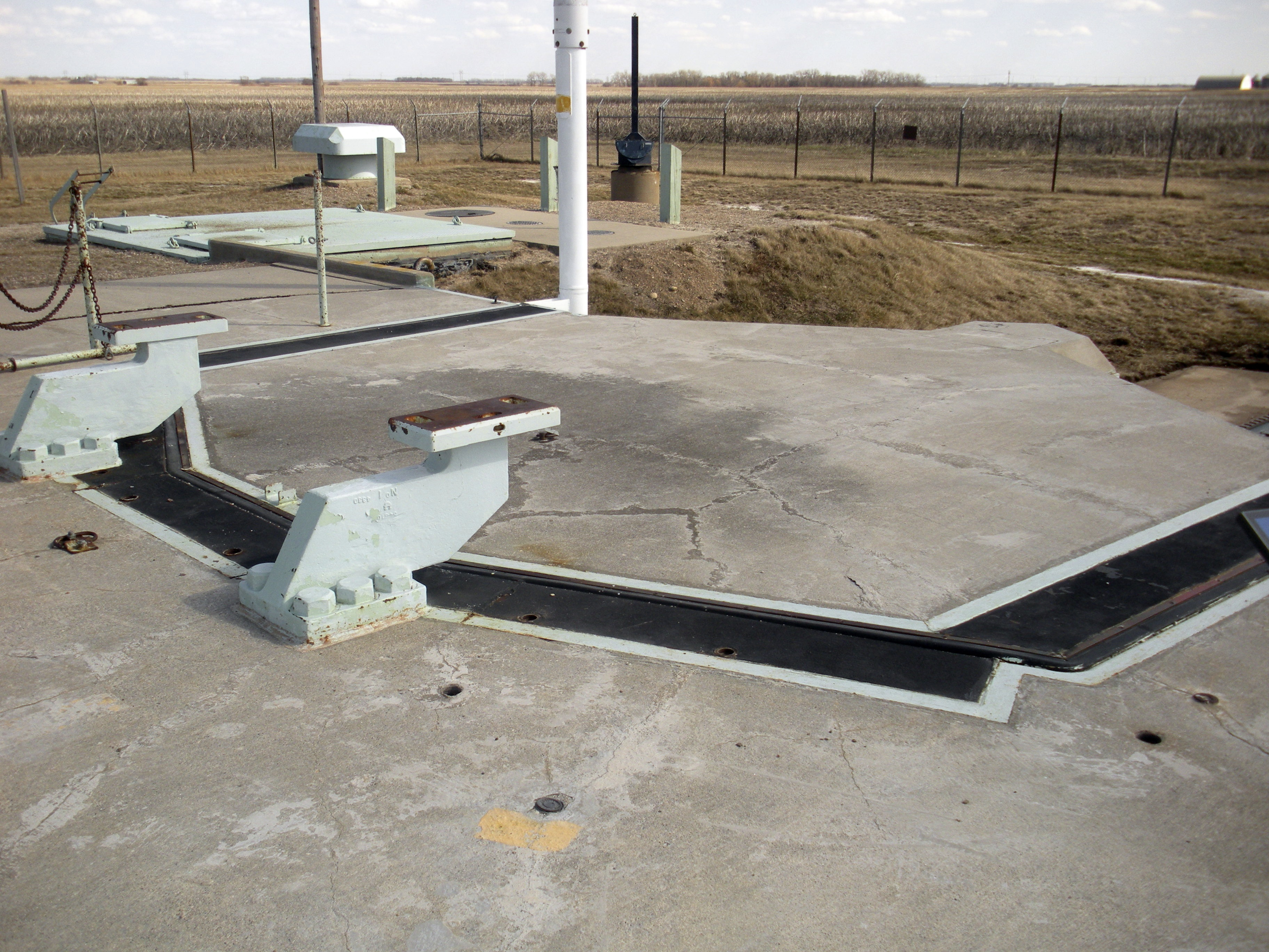 Minuteman III ICBM missile silo east of Cooperstown, ND. This facility was deactivated in 1997.